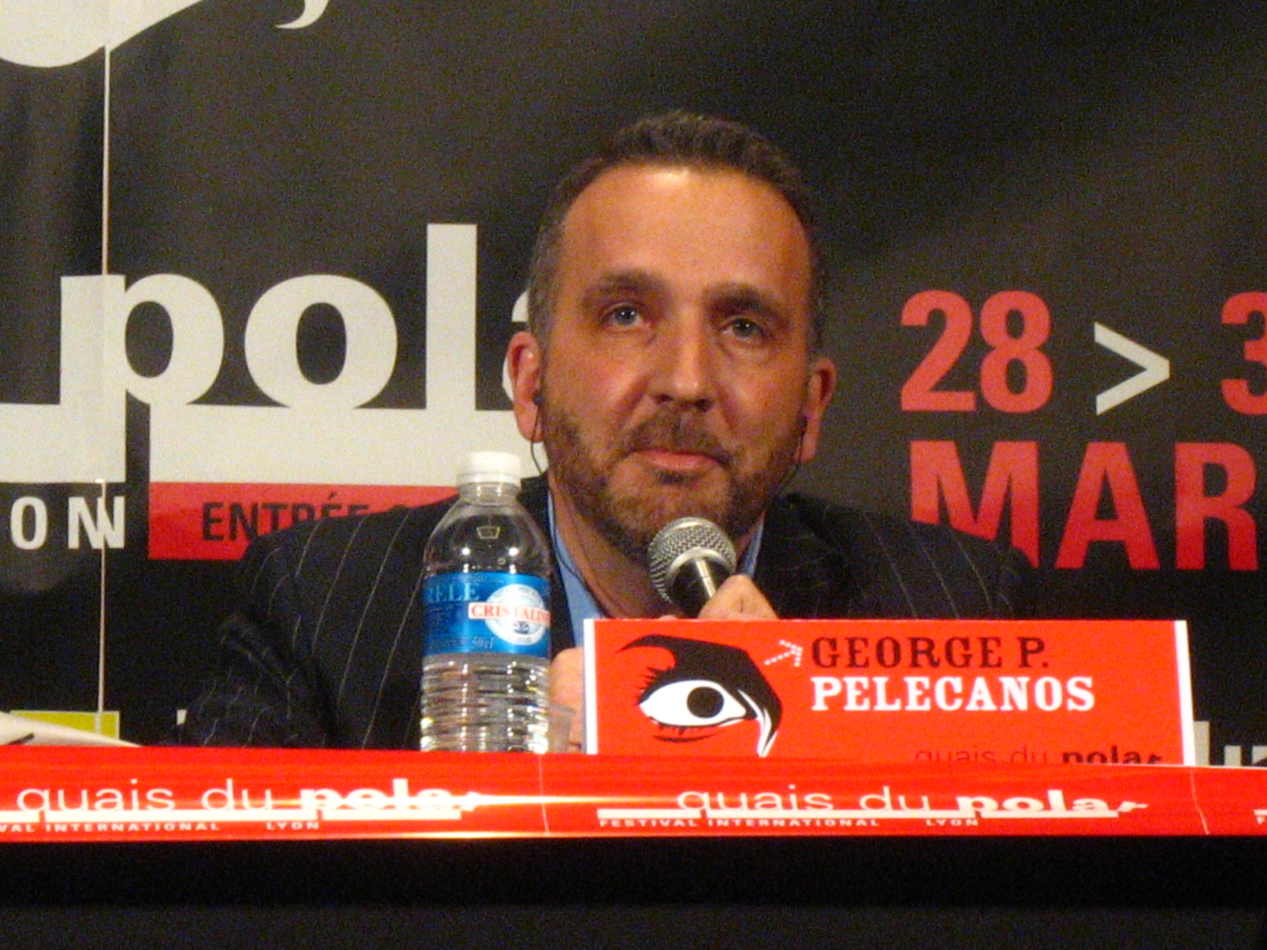 George Pelecanos speaking at Quai du Polar festival in Lyon (France) in a debate about french fascination for american literature and politics.